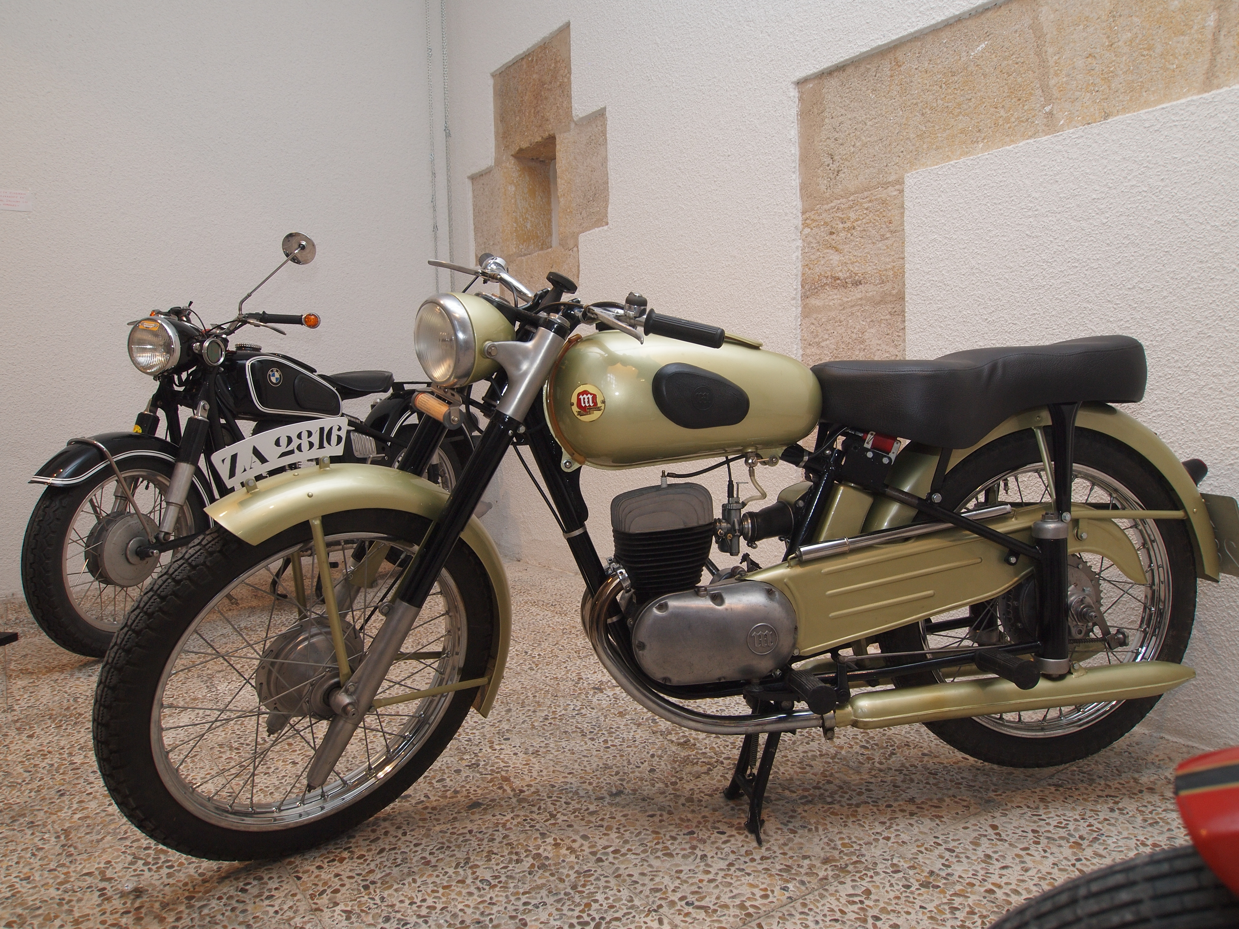 Montesa Brio 81cc (1956) at exhibition in the II Show "Toda una Vida en Moto" of the Asociacion Motociclista Zamorana (Zamora, Spain, February 2012)